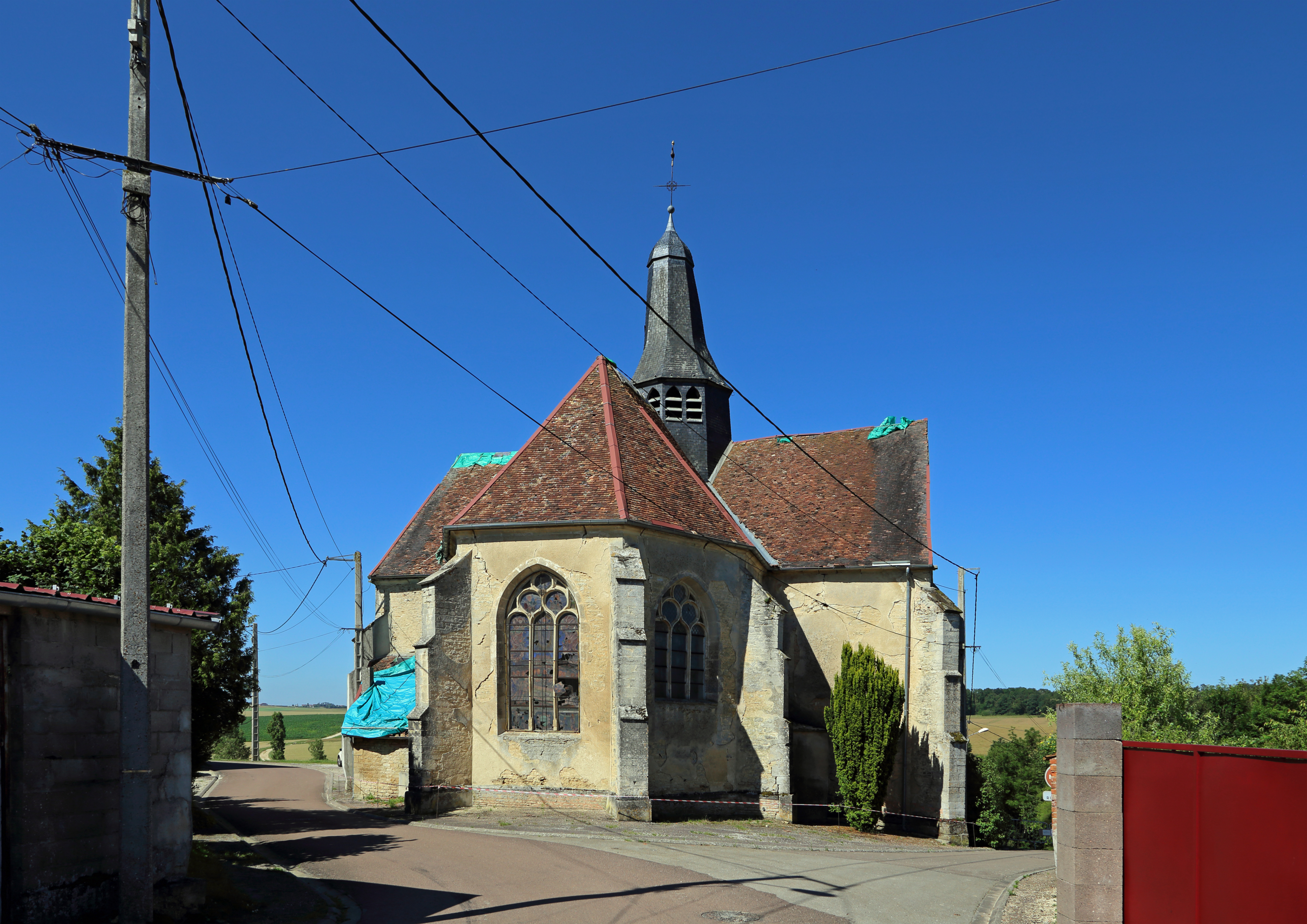 Le Puits (municipality of Puits-et-Nuisement, Aube department, France): church of the Assumption of the Holy Virgin